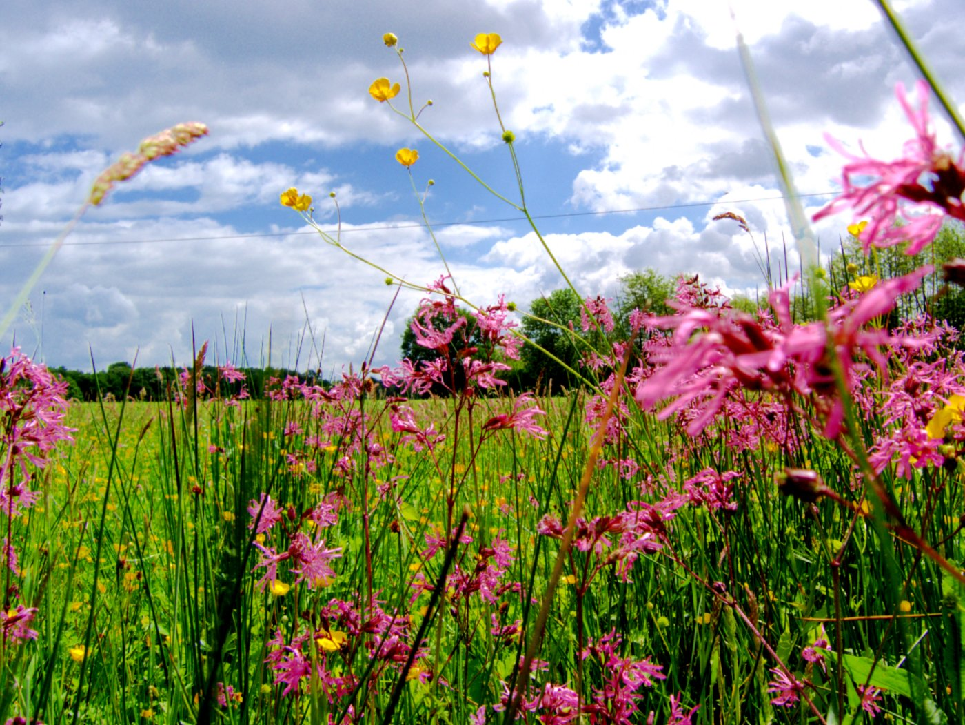 Name: Meadow (wet) with Ranunculus and Lychnis flos-cuculi. Location. Münster, NRW, Germany